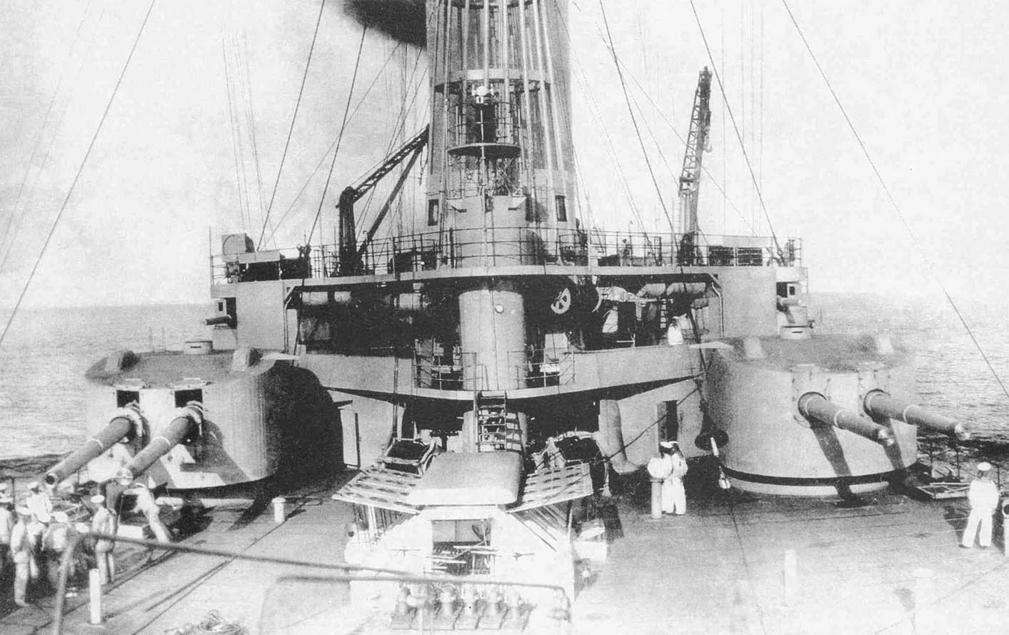 Imperial Russian battleship Andrei Pervozvannyi.